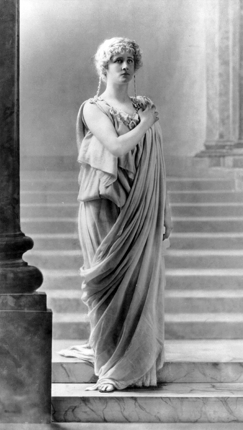 American actress Mary Anderson (1859-1940) as Hermione in Shakespeare's Winter's Tale photographed by Henry Van der Weyde (1879-1929)